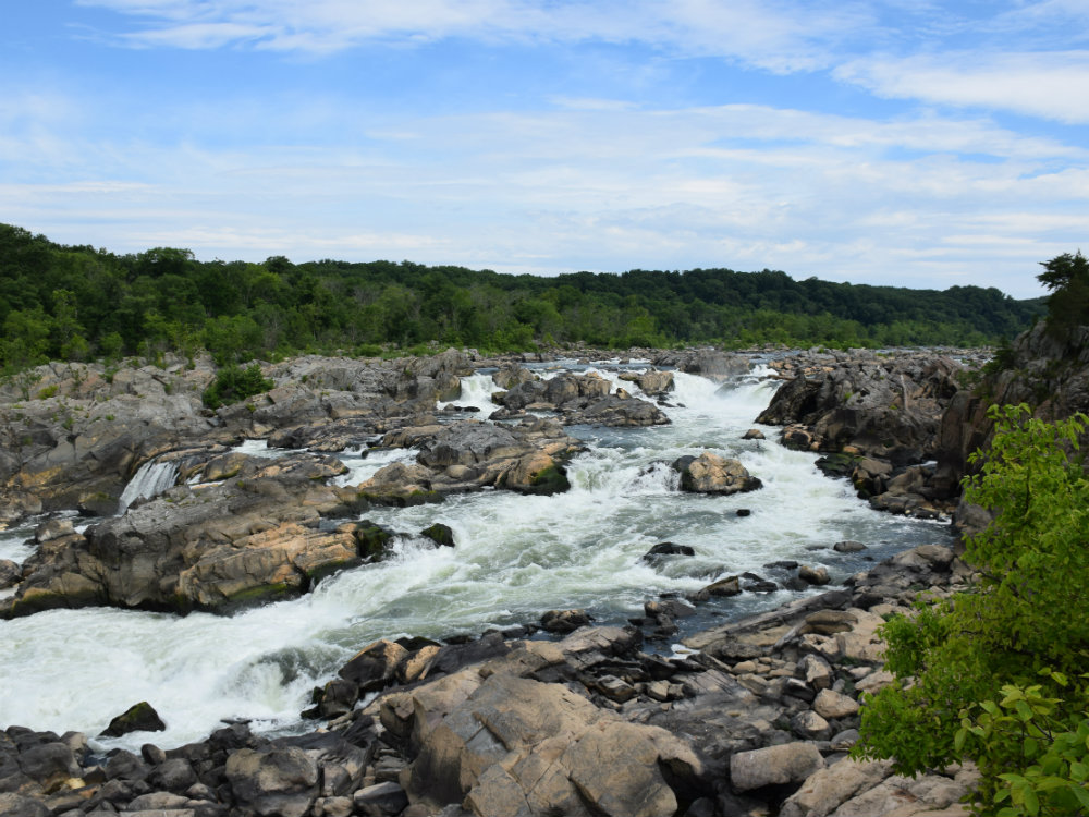 Great Falls of the Potomac viewed from Maryland